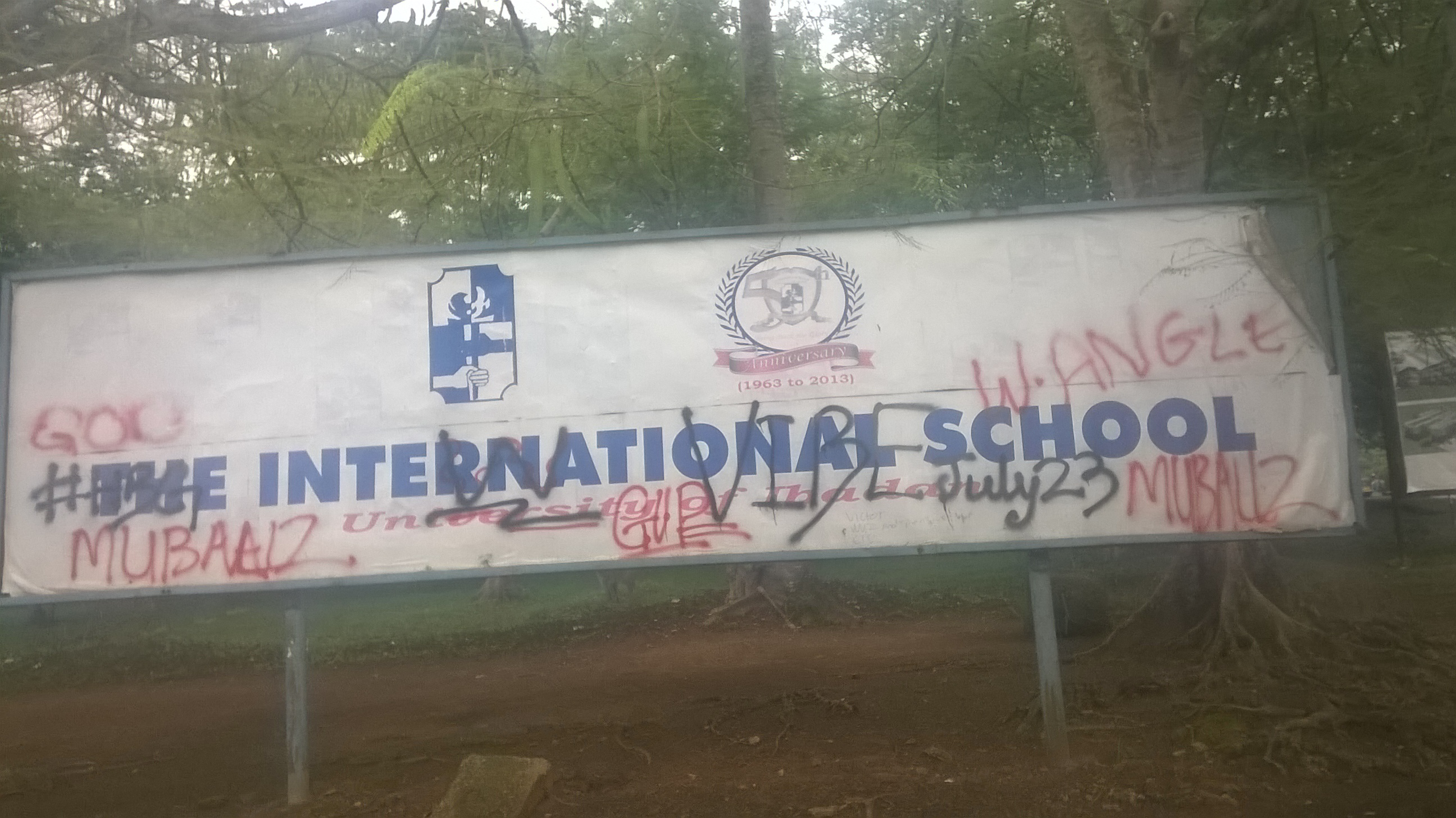 Entrance to International School Ibadan